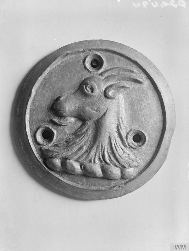 The Collections of the Imperial War Museum The ship badge of HMS Angora.